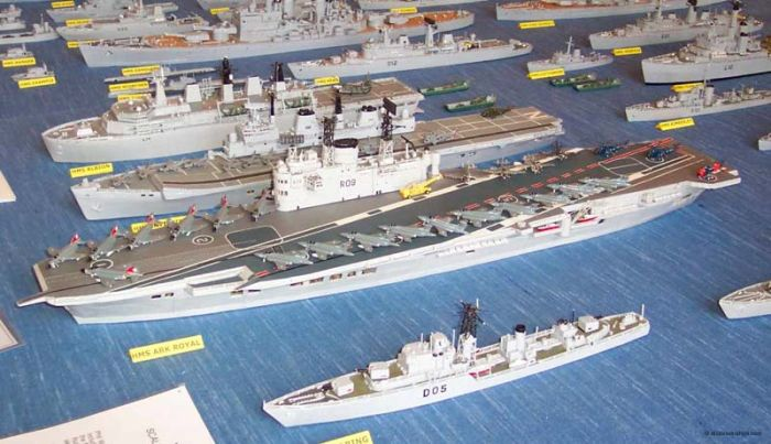 Philip Warren barcos con cerillos